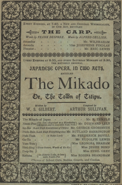 Savoy Theatre programme, 11 February 1886, for The Carp and The Mikado. Public domain.